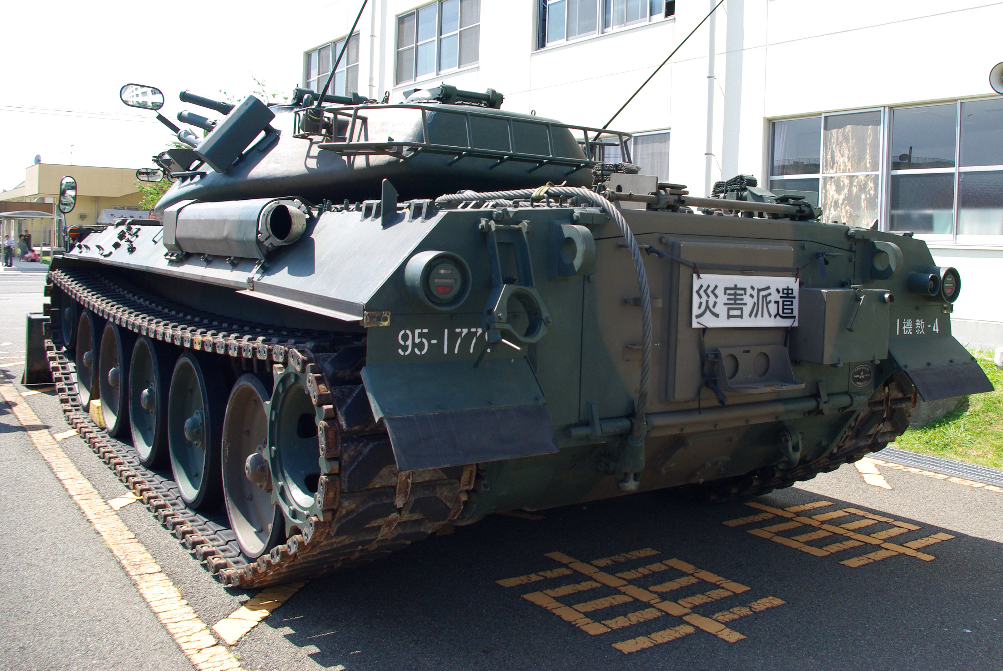 JGSDF Type74 Tank with dozer blade,1st Armored Training Unit/Eastern Army Combined Brigade.Taken by Los688,in Camp Takeyama,Japan,at 27-May-2012.PD-self ja:74式戦車 排土板付 2012年05月27日、東部方面混成団第1機甲教育隊 武山駐屯地で撮影。